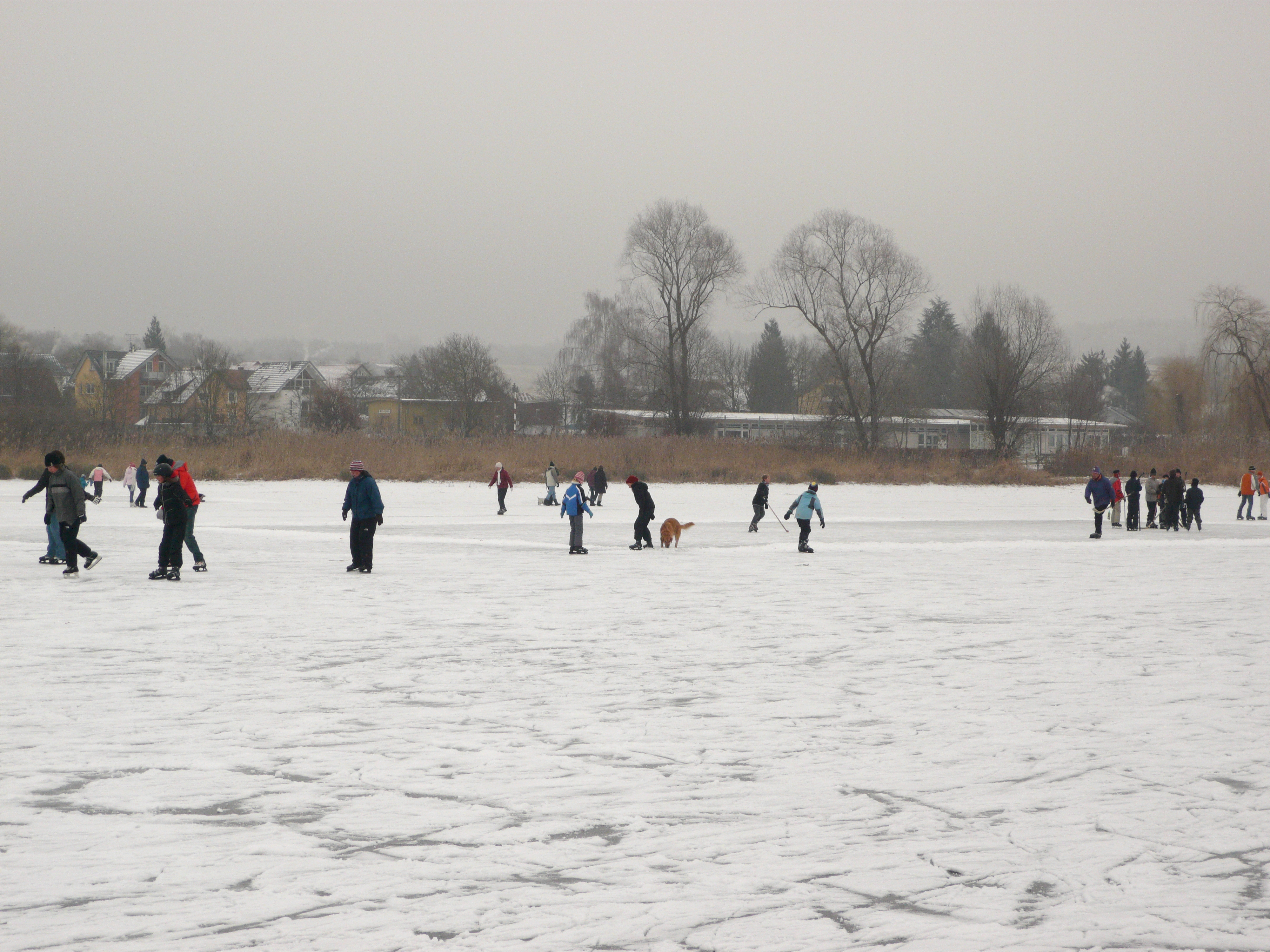 Frozen Lake Konstanz